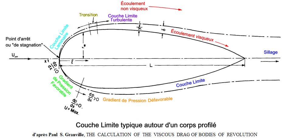 Evolution of the boundary layer along a streamlined body of revolution, according to Paul S. Granville (THE CALCULATION OF THE VISCOUS DRAG OF BODIES OF REVOLUTION, Report 849, Navy Department, July 1953).